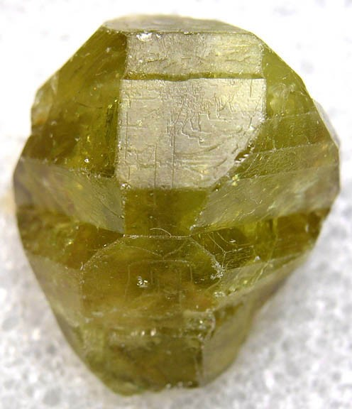 Chrysoberyl Locality: Itaguaçu, Espírito Santo, Southeast Region, Brazil (Locality at ) Size: 2.1 x 1.9 x 1.8 cm. Some of the most classic Chyrsoberyl specimens in the world are those from Espírito Santo in the southeastern end of Brazil. These specimens exhibit some of the most recognized and celebrated "sixling" twins for Chrysoberyl extant. This thumbnail specimen shows great yellow-green color with excellent gemminess and sharp, lustrous faces. The piece is twinned, but not in the well known "sixling" form like many from this area. Ex. Kosnar Collection.